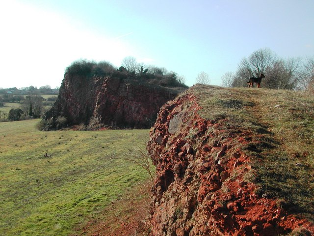 Hartcliffe Rocks